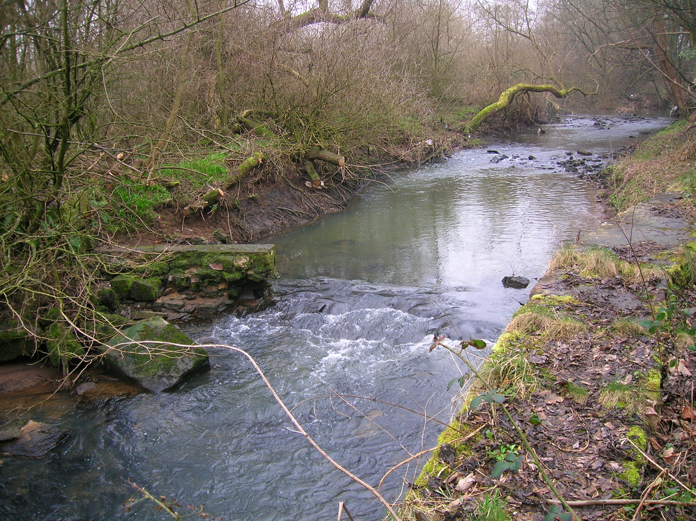 The dam at Pow Mill on the Pow Burn. Prestwick, South Ayrhire, Scotland.